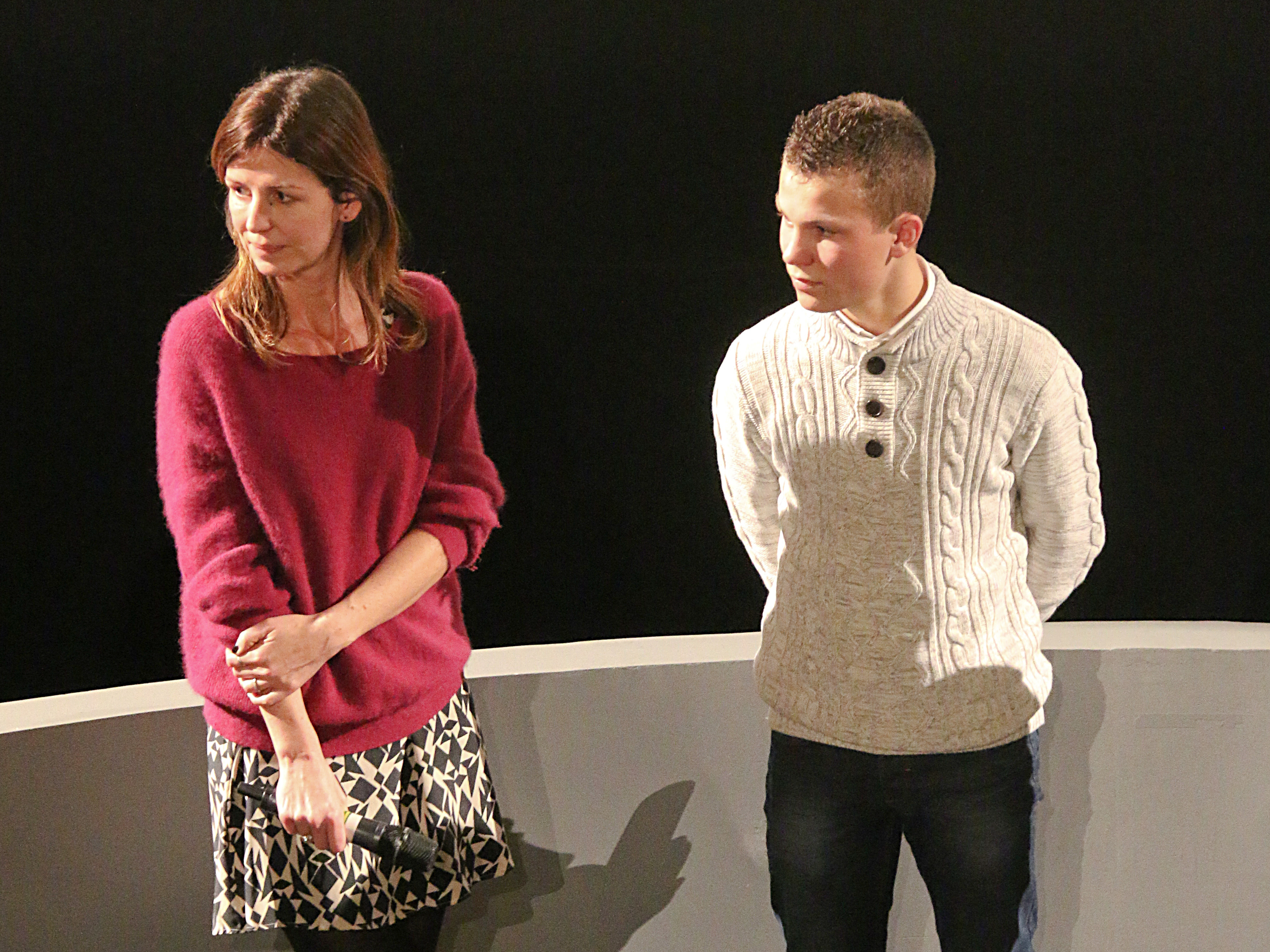 Alix Delaporte, director, and Romain Paul, lead actor of the movie "The last hammer blow". Preview in Paris.